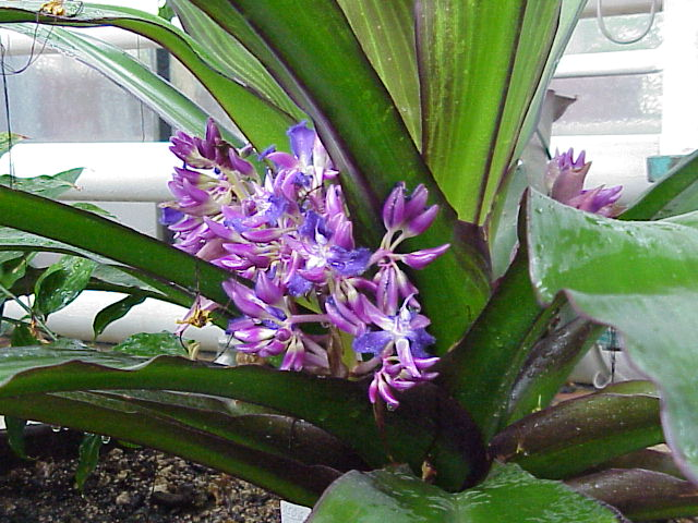 Species: Cochliostema relutinum Family: Comm. Image No. 3